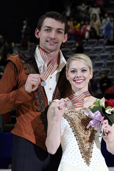 Alexa Scimeca and Chris Knierim at the 2016 Four Continents Championships - Awarding ceremony